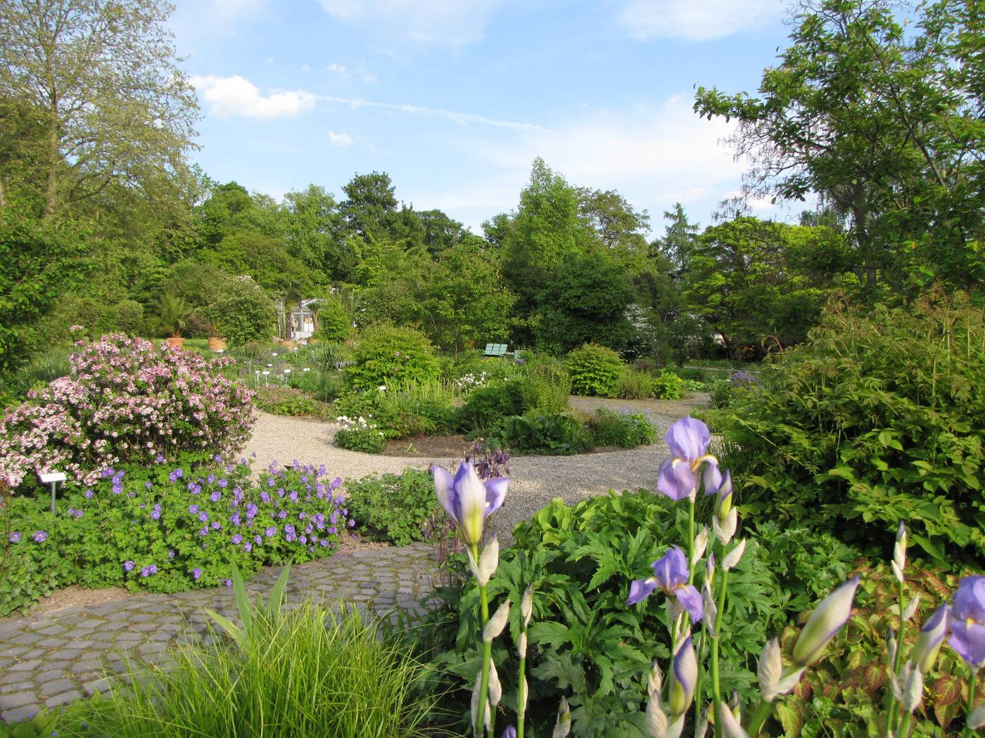 Germany / Cassel: botanical garden